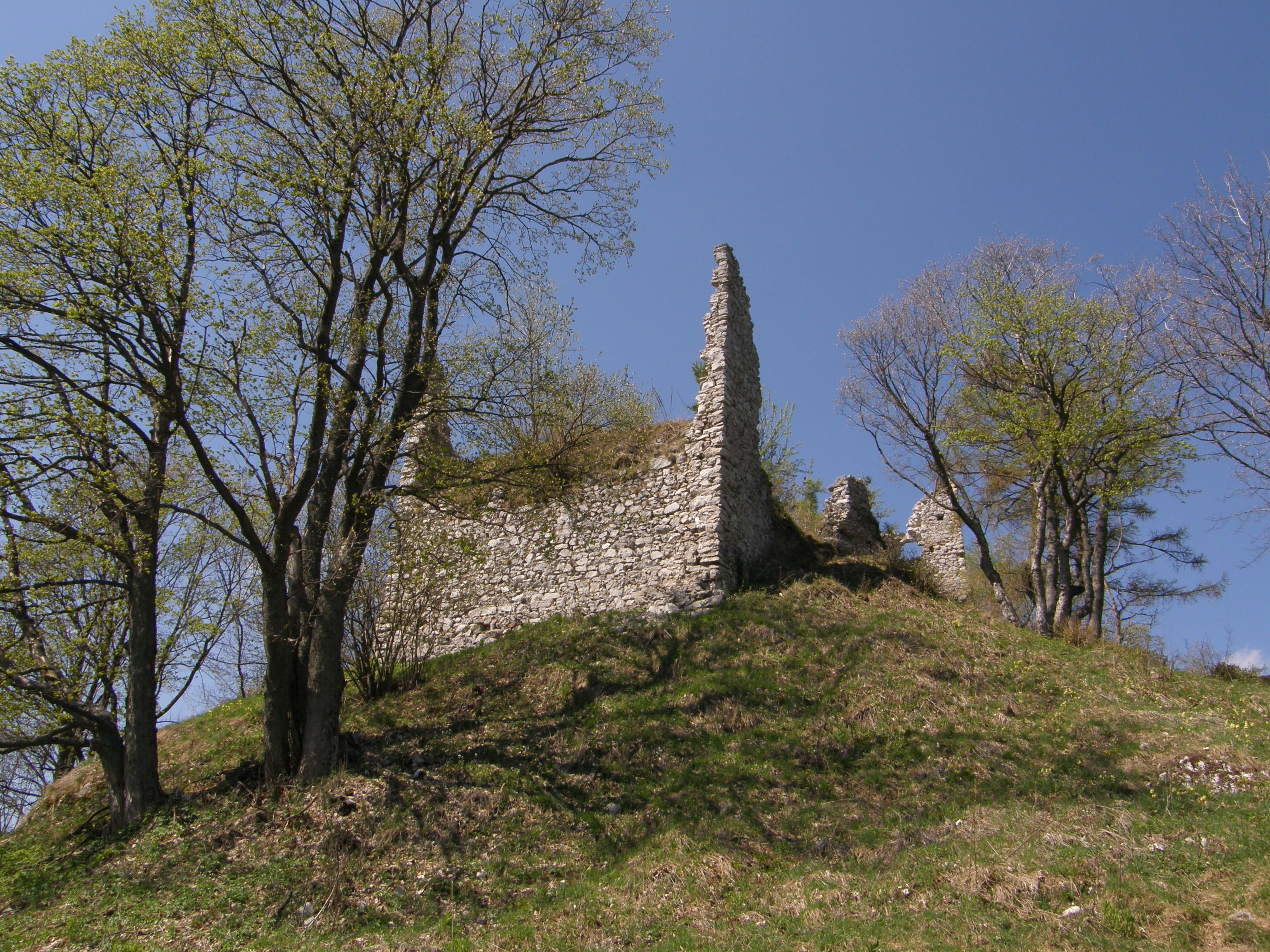 Zniev Castle, palace of the lower castle.